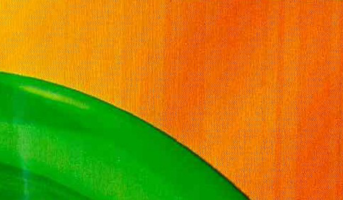 Doctor blade in gravure printing